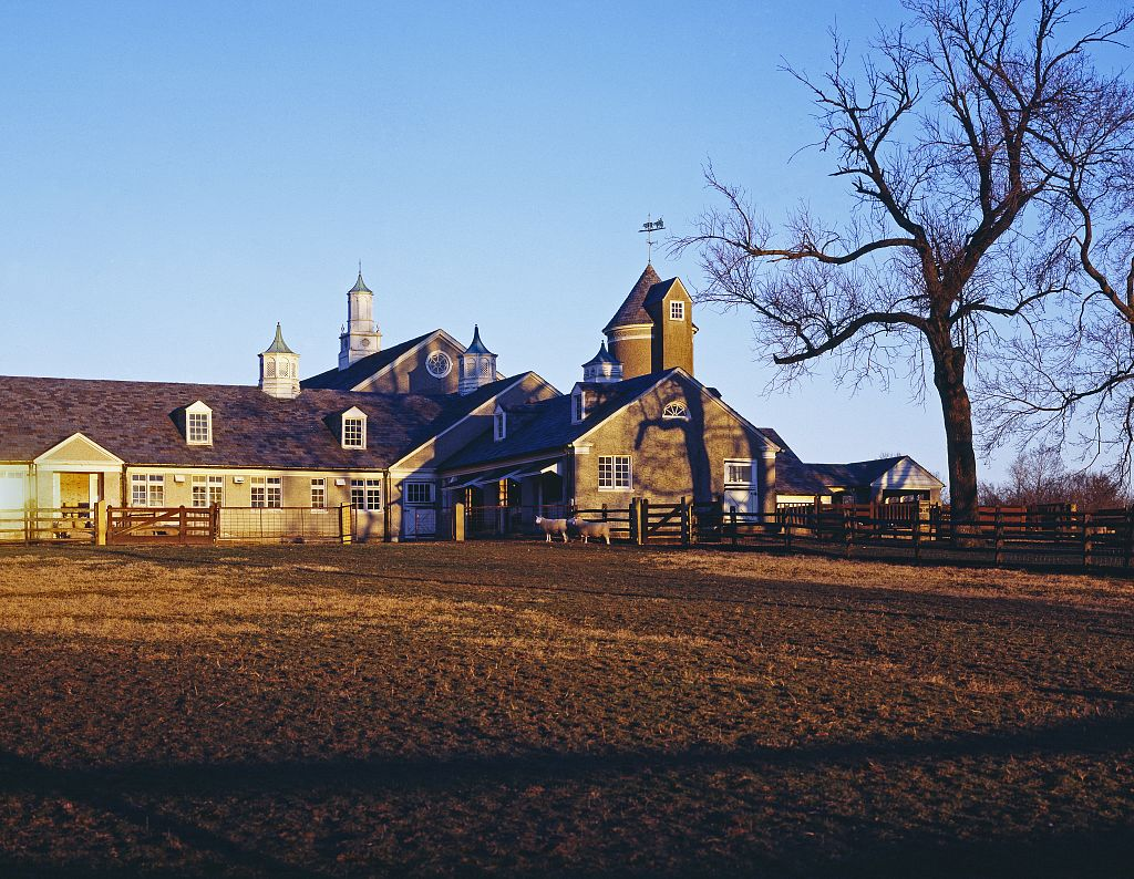 Sheep barn, Erdenheim Farm, Lafayette Hill, Pennsylvania, looking north from Flourtown Road.